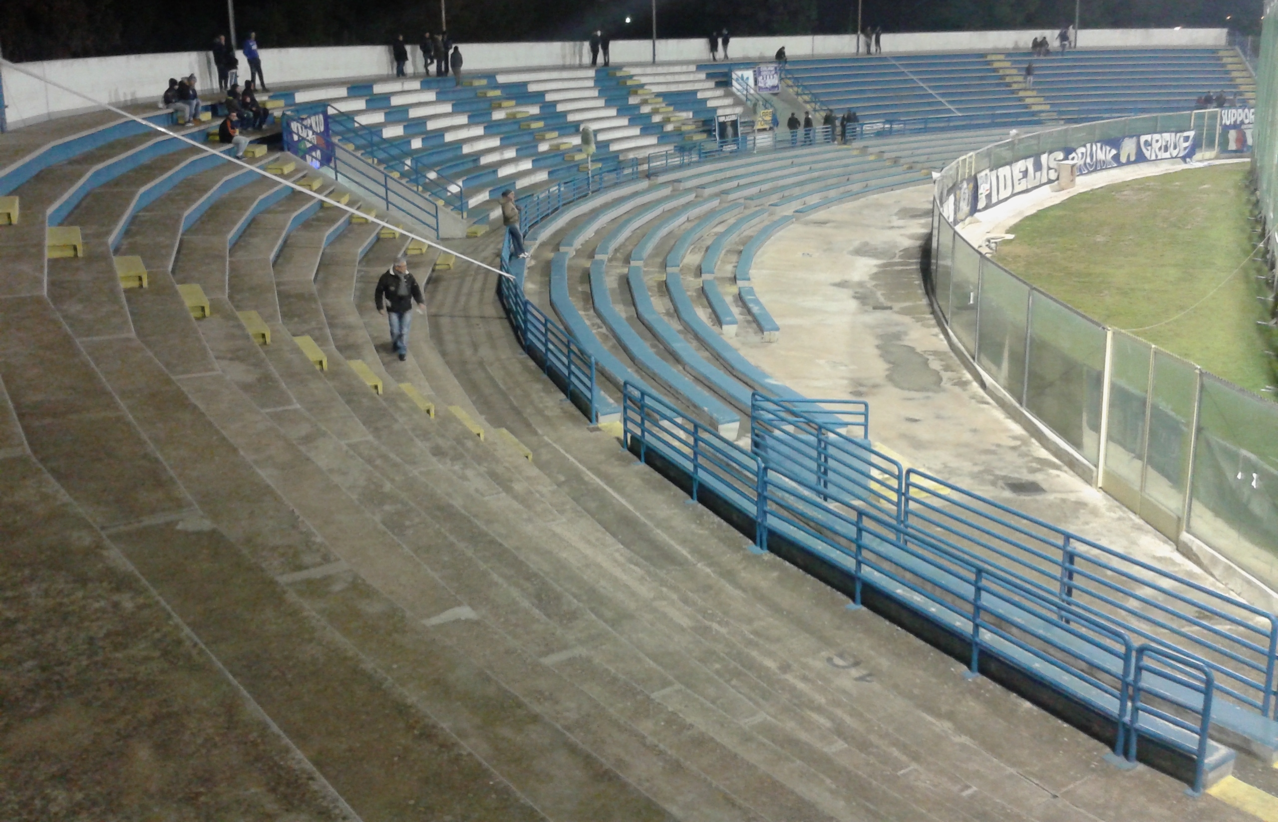 Degli Ulivi stadium, Andria